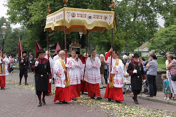 Holy Blood group, Boxmeerse Vaart Holland.